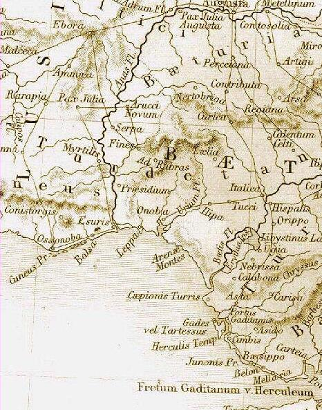 Map of the Gulf of Cádiz in ancient times, showing part of the Roman provinces of Lusitania and Bætica.